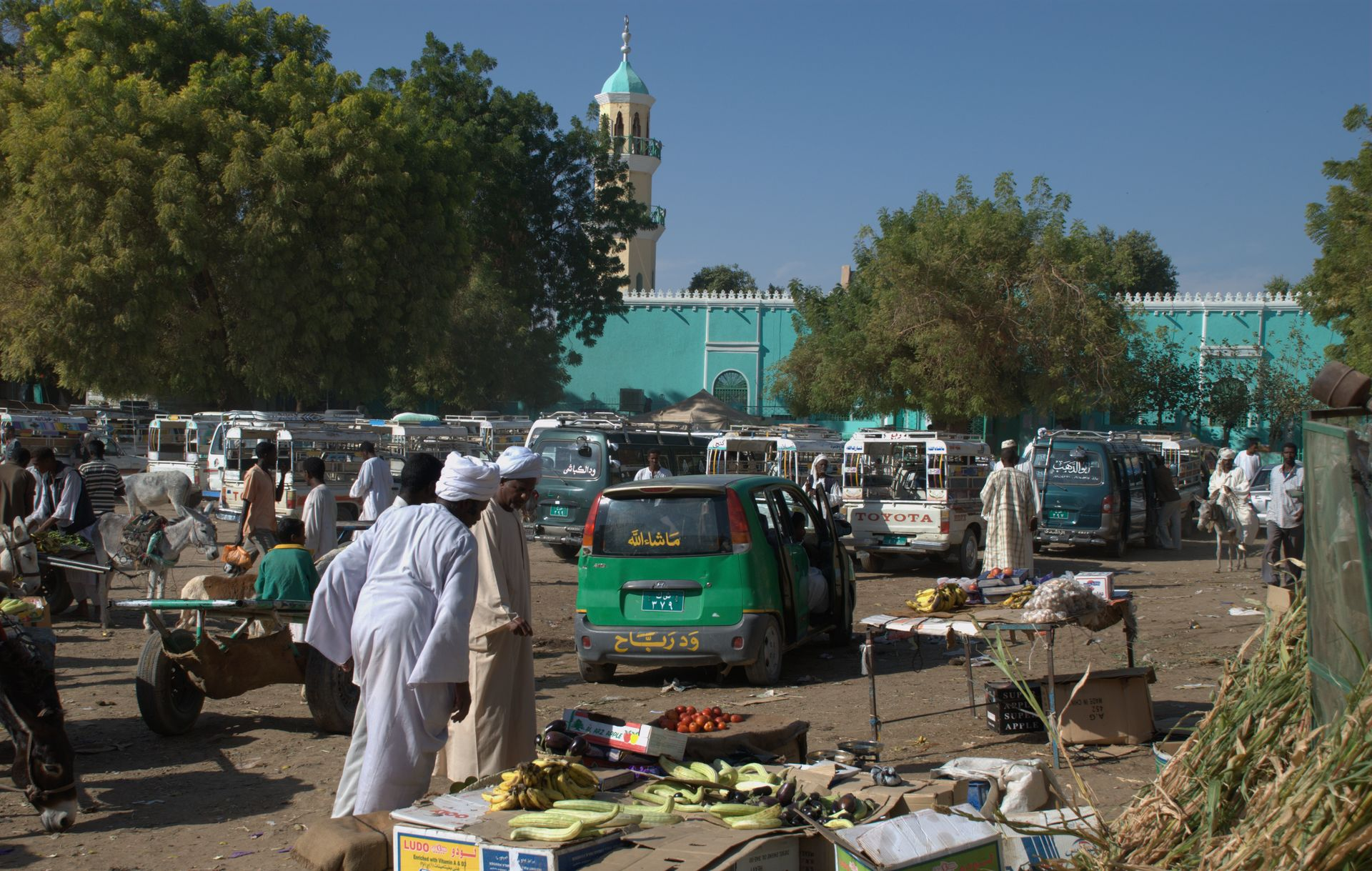 Dongola, Sudan, market square